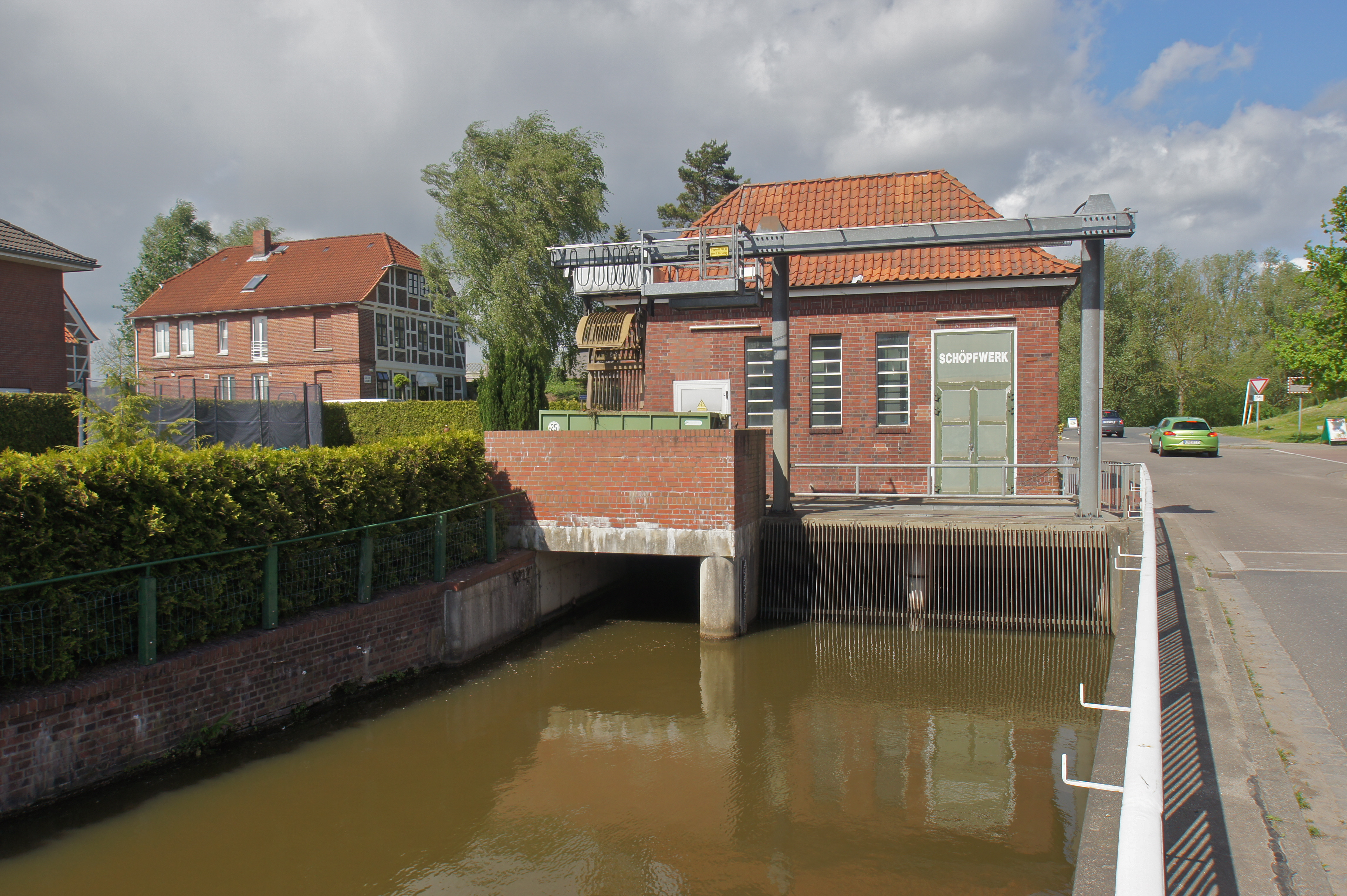 Jork (Borstel (Jork)), Germany: Drainage sluse at the Zester